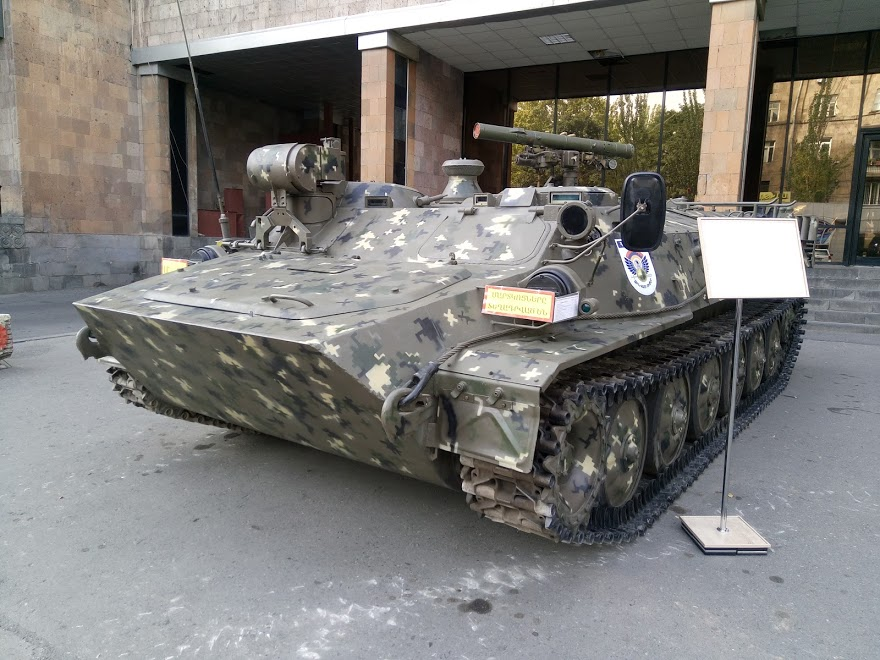 Tank Destroyer based on MT-LB